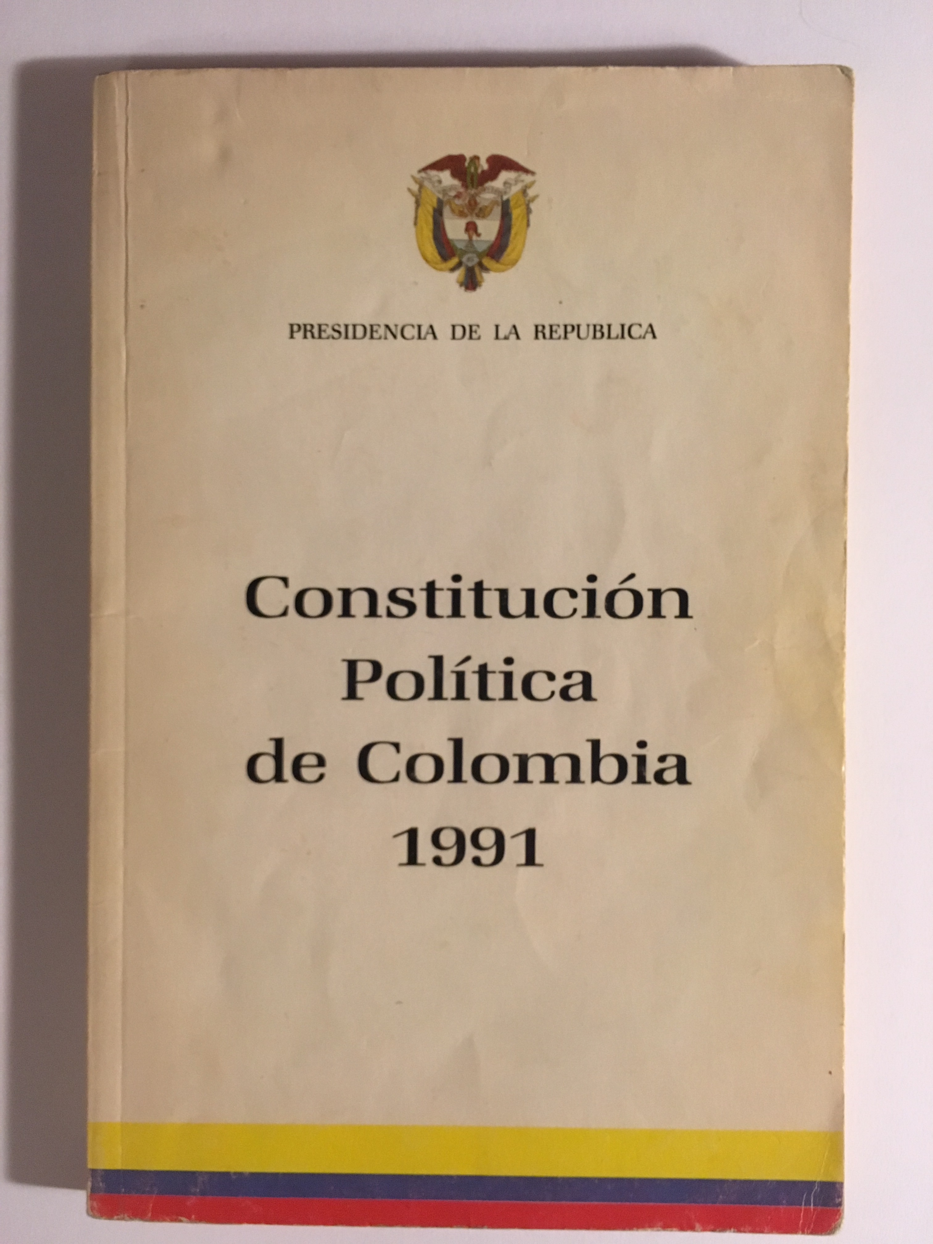 Photography of a publication of the Colombian constitution. The book was printet in December 1991 at IMPREANDES, S. A., Bogotá, Colombia. No copyrights are mentioned in the book.